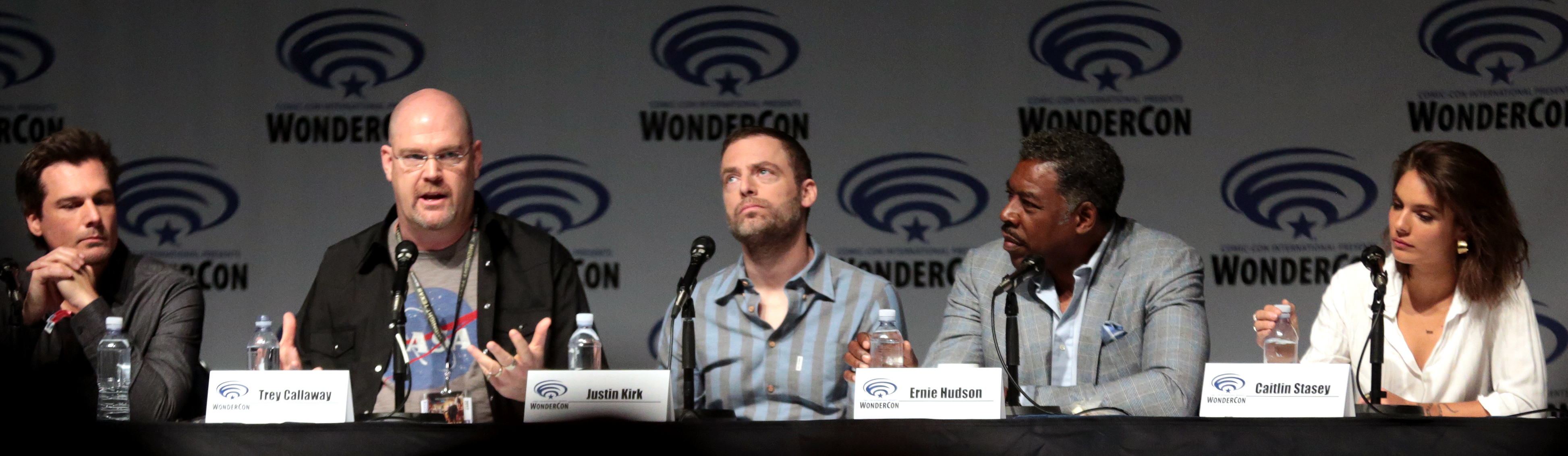 Len Wiseman, Trey Callaway, Justin Kirk, Ernie Hudson and Caitlin Stasey speaking at the 2017 WonderCon, for "APB", at the Anaheim Convention Center in Anaheim, California.